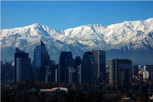 Skyline Santiago City, Chile.